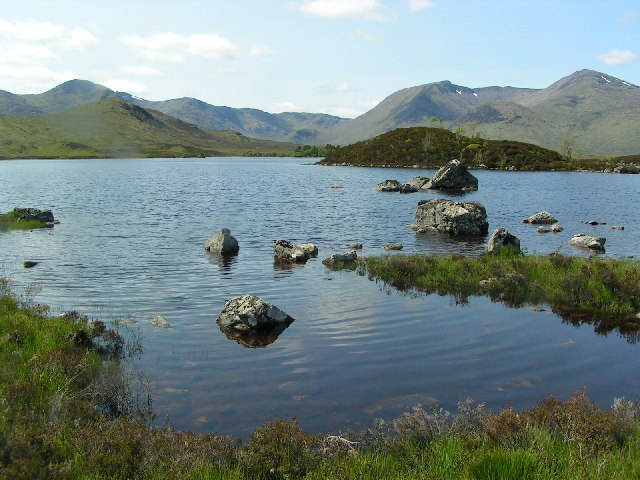 Lochan na h-Achlaise. This lovely scene is right beside the A82 on the way to Rannoch Moor.